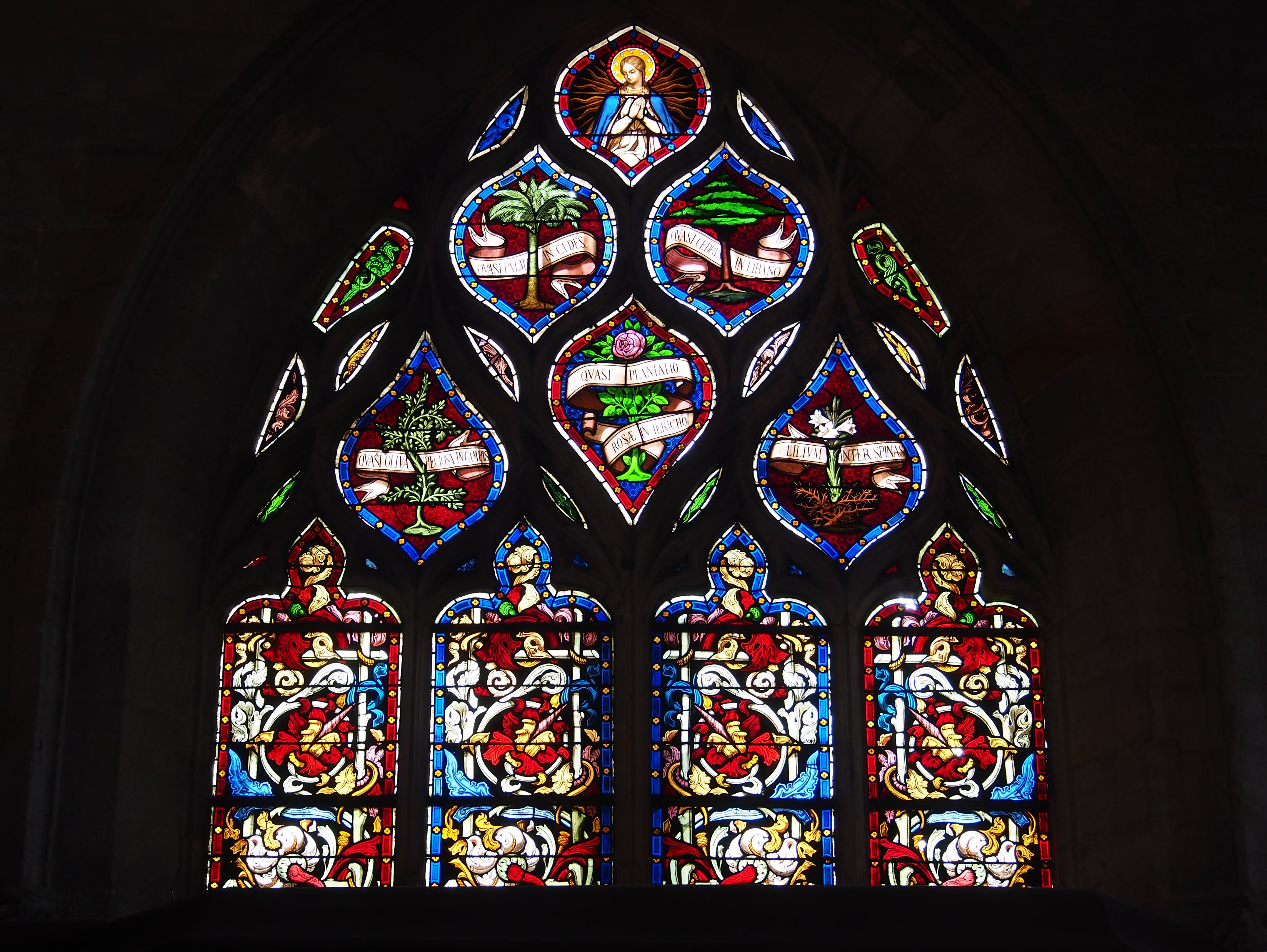 Photographed in the church Notre Dame de Fontainay-le-Comte, France.